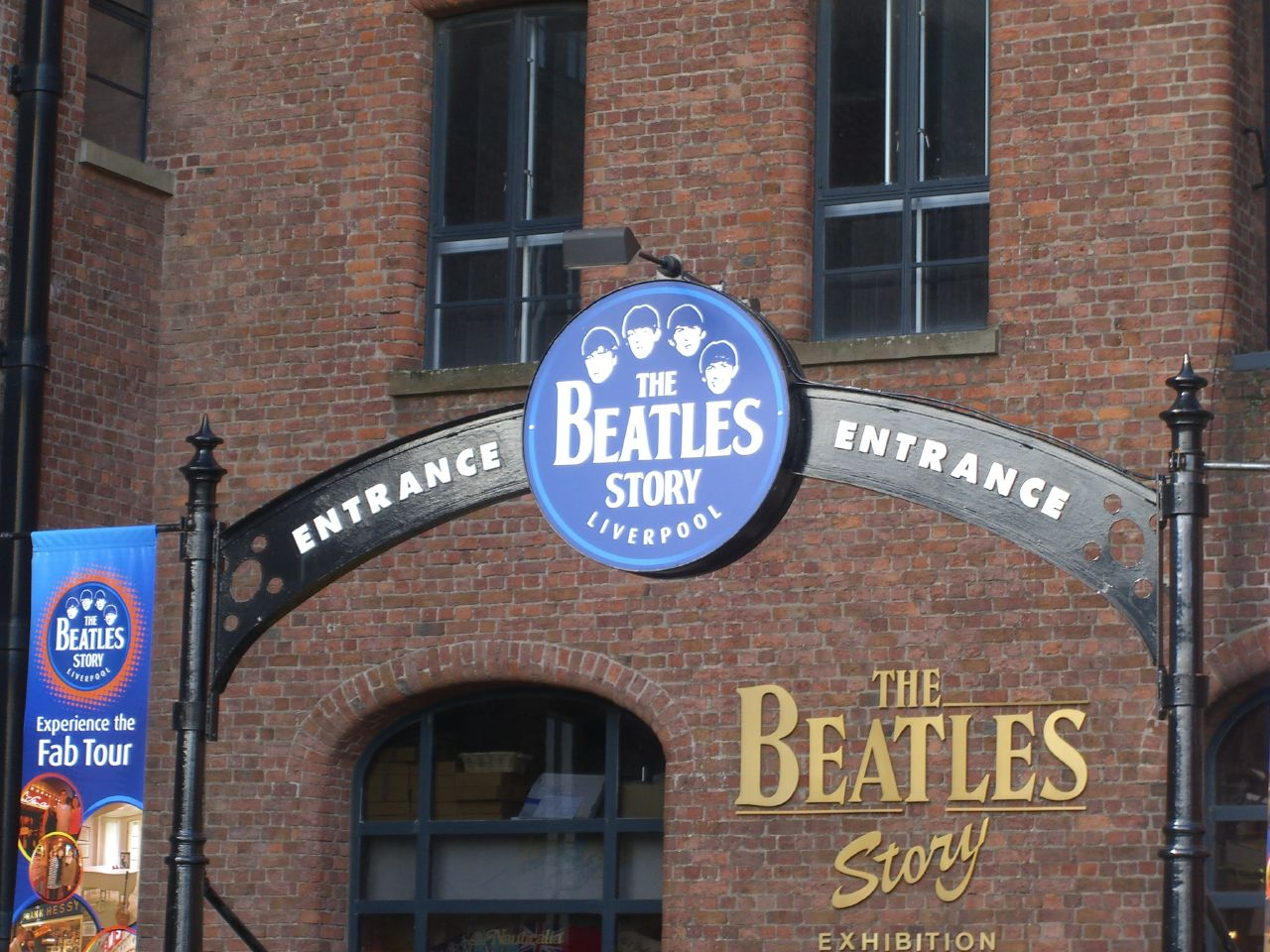 The beatles Story, Liverpool, England.